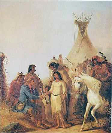 The Trapper's Bride